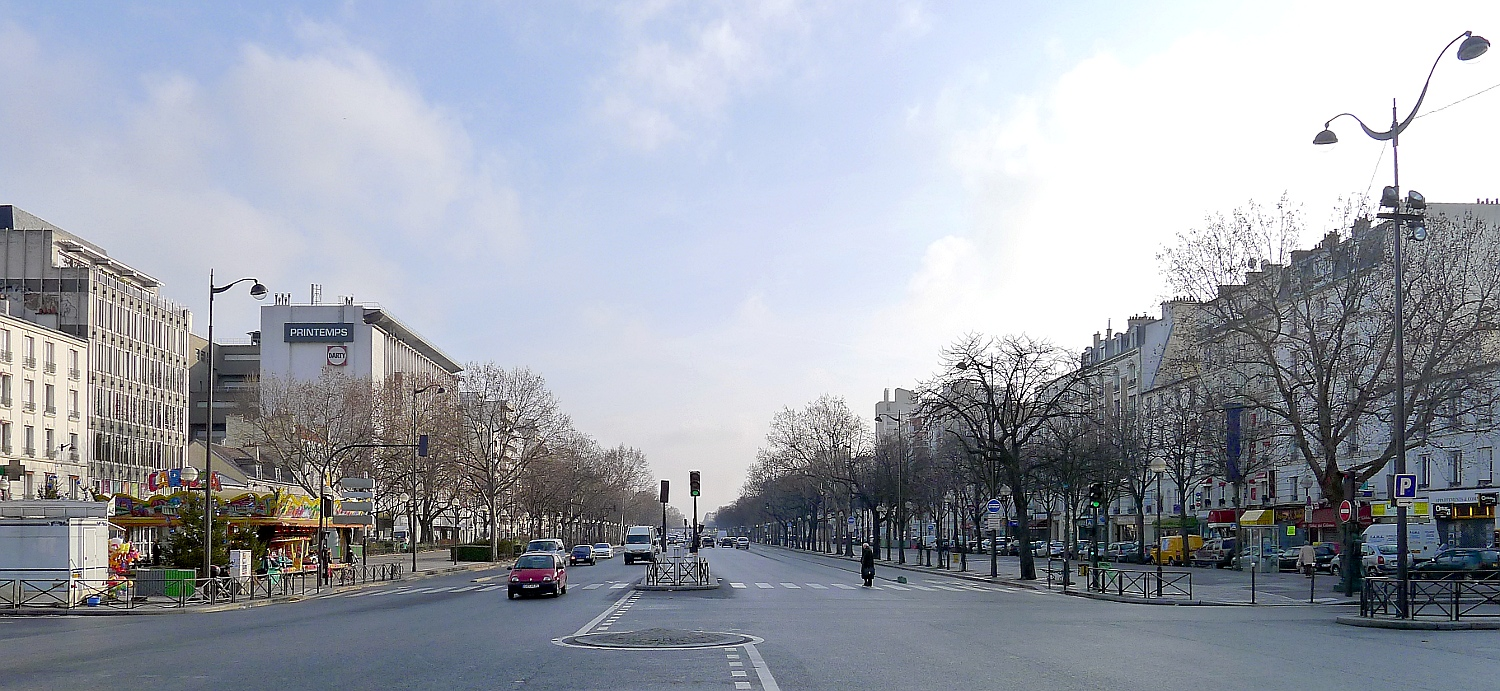 Cours de VIncennes - Paris